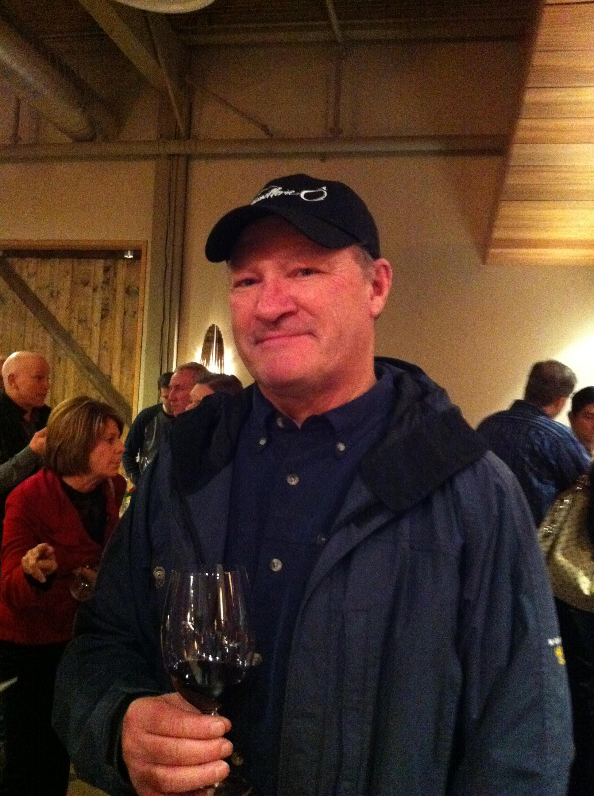 Washington State Vineyard owner Dick Boushey